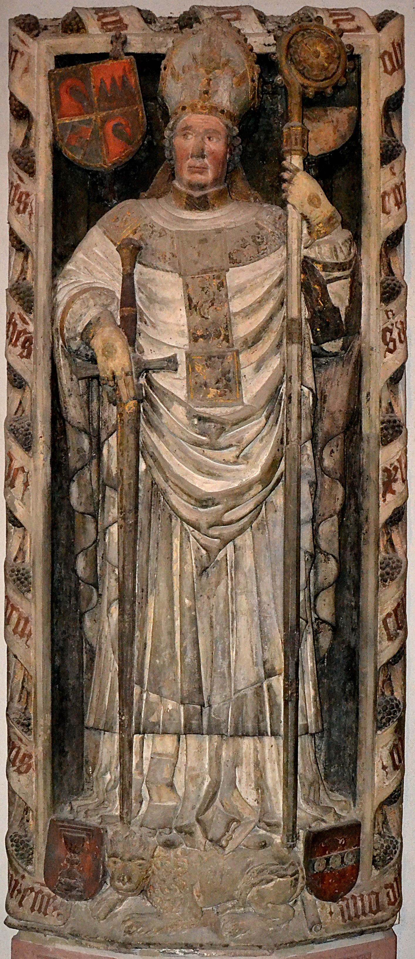 Johann II. von Brunn Wurzburg Dom